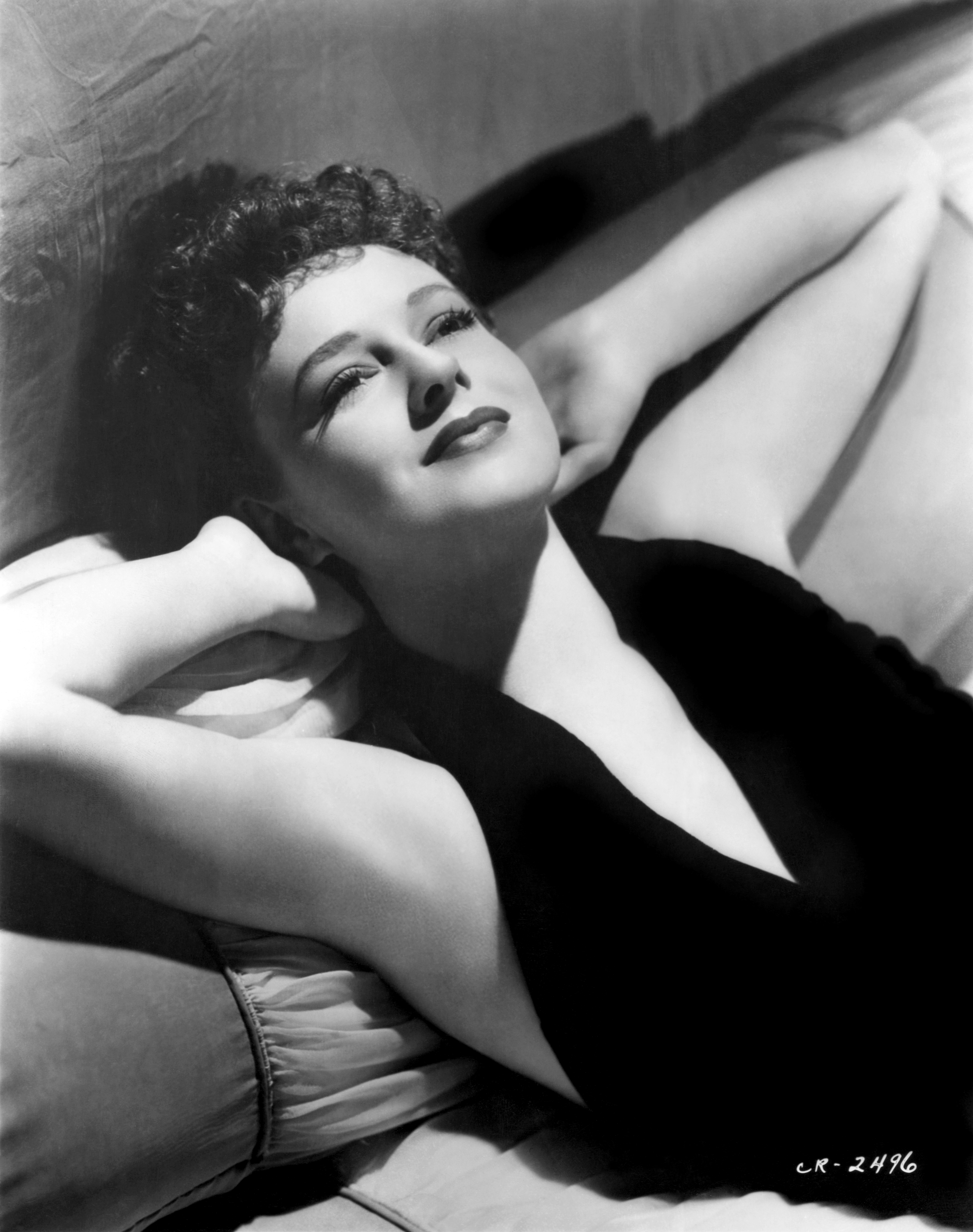 Promotional photograph of Dorothy Comingore for the 1941 film Citizen Kane Comingore resumed her own name when she signed with RKO; she previously worked for Warner Bros. and Columbia Pictures as Linda Winters. Her natural hair color was red. The photo is flopped in the original magazine layout.